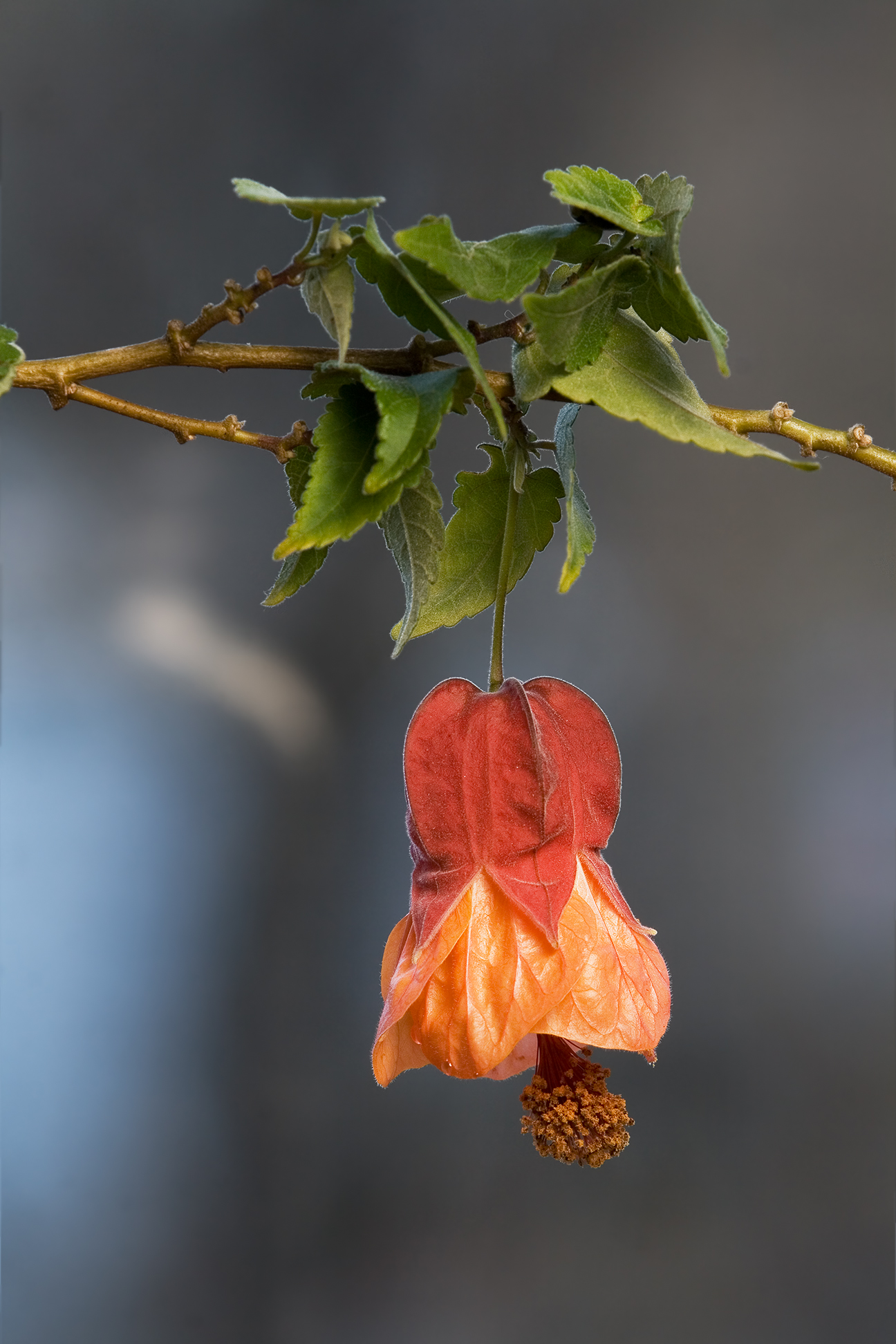 Abutilon ×hybridum cultivar 'Patrick Synge' Camera data Camera Canon EOS 400D Lens Tamron EF 180mm f3.5 1:1 Macro Flash Umbrella Focal length 180 mm Aperture f/10 Exposure time 1 s Sensivity ISO 100